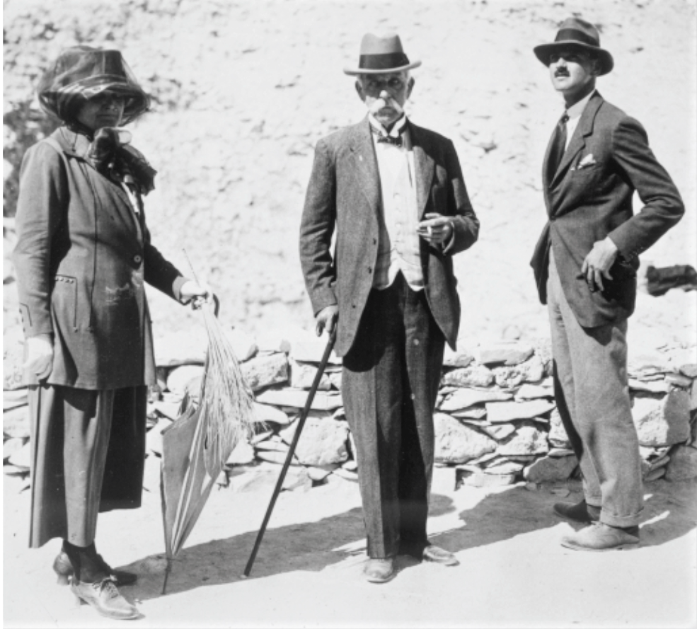 Lady Betty and Sir Edward Beauchamp with their son, Brograve Beauchamp, visting Tutankhamen's tomb, Luxor, Egypt, spring 1923.